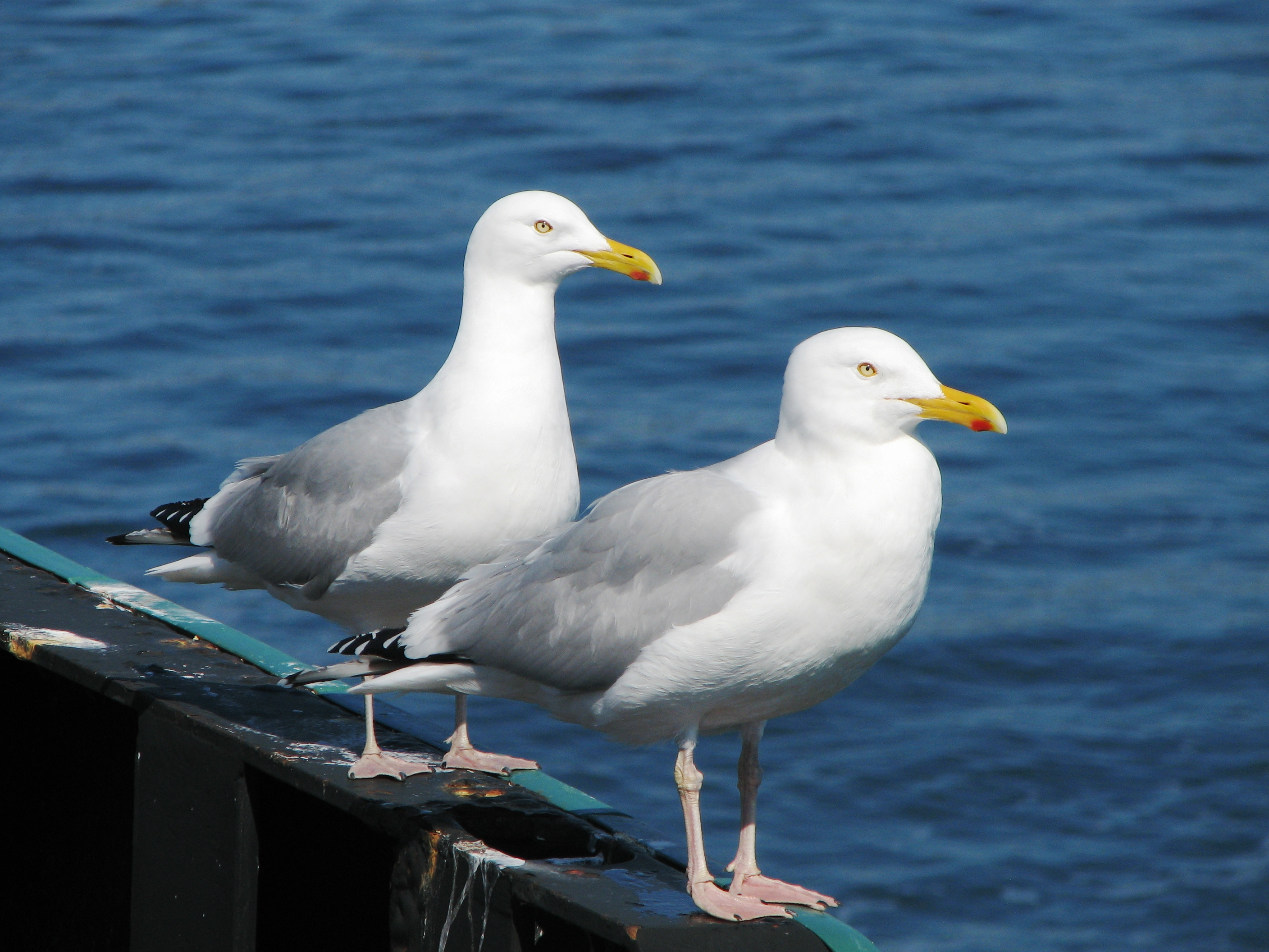 American Herring Gull, adult summer plumage, Nut Island Pier, Quincy, Massachusetts.